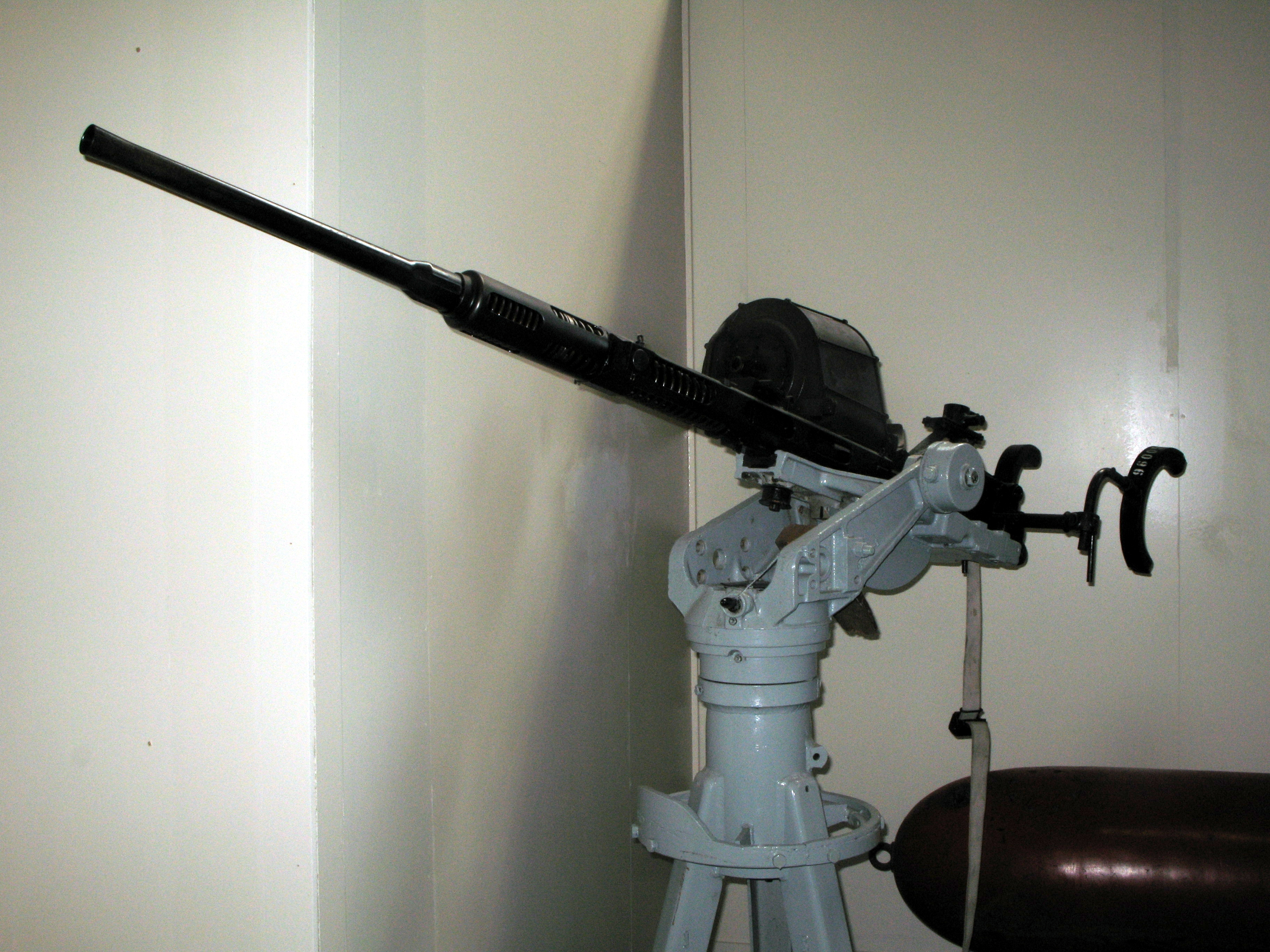 Oerlikon 20 mm cannon